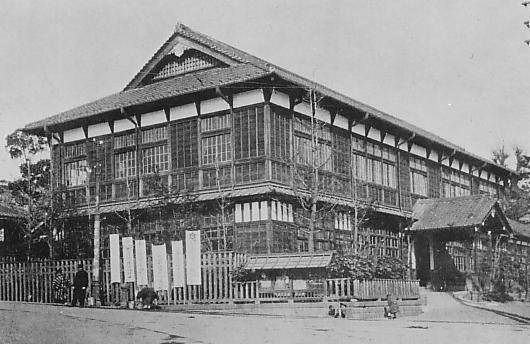 Former Koishikawa Ward Office